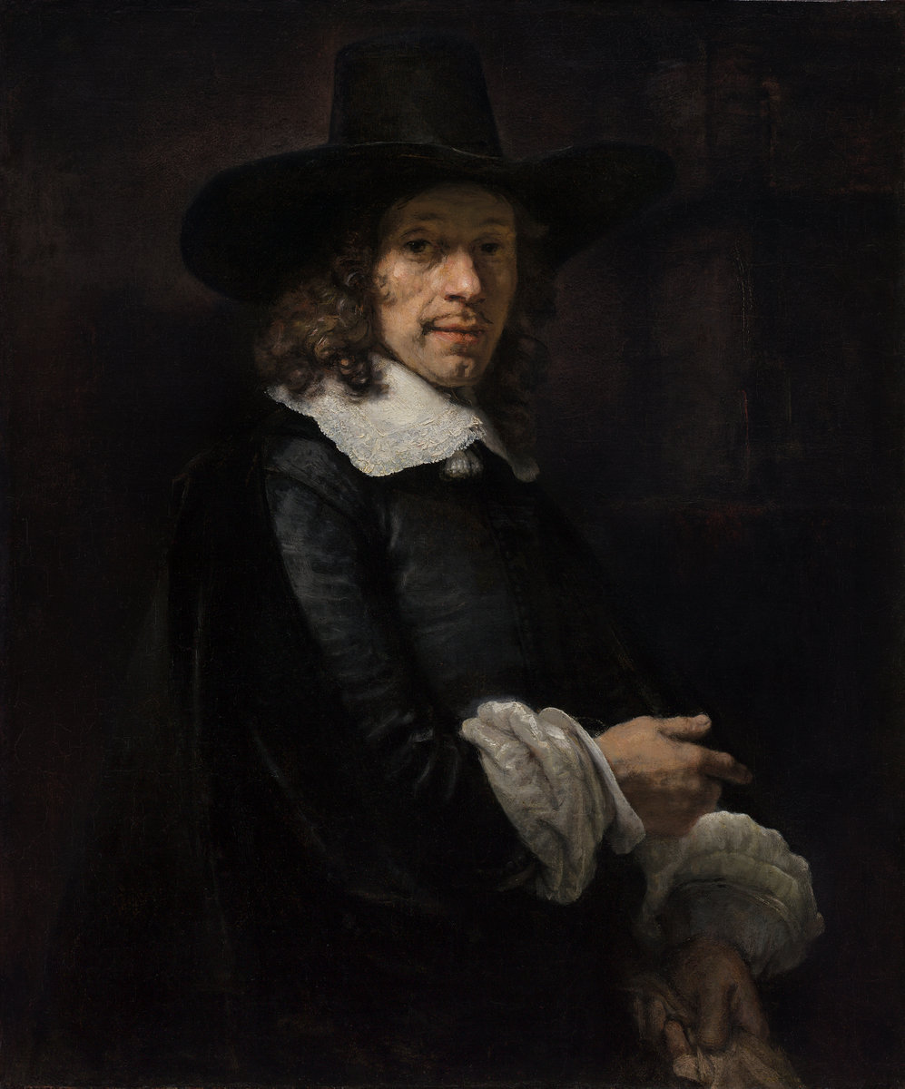 Pendant of File:Ostrich lady.jpg